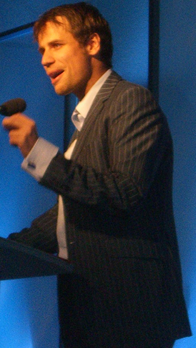 Richard Bacon, former Blue Peter presenter. Cropped from original.